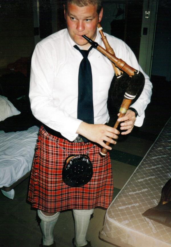 First wood Zetland pipes made from cherry.